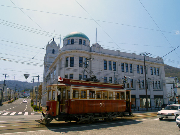 old tram